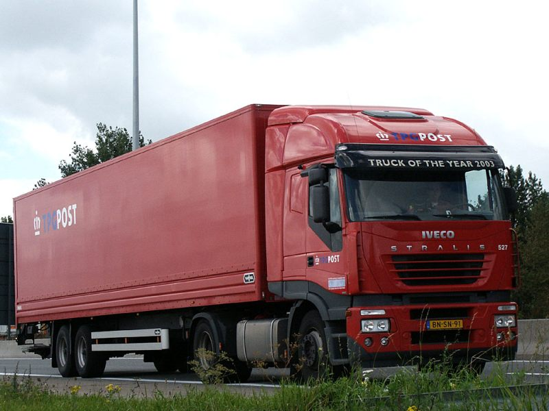 Iveco Stralis, international truck of the year 2003. My own photo.